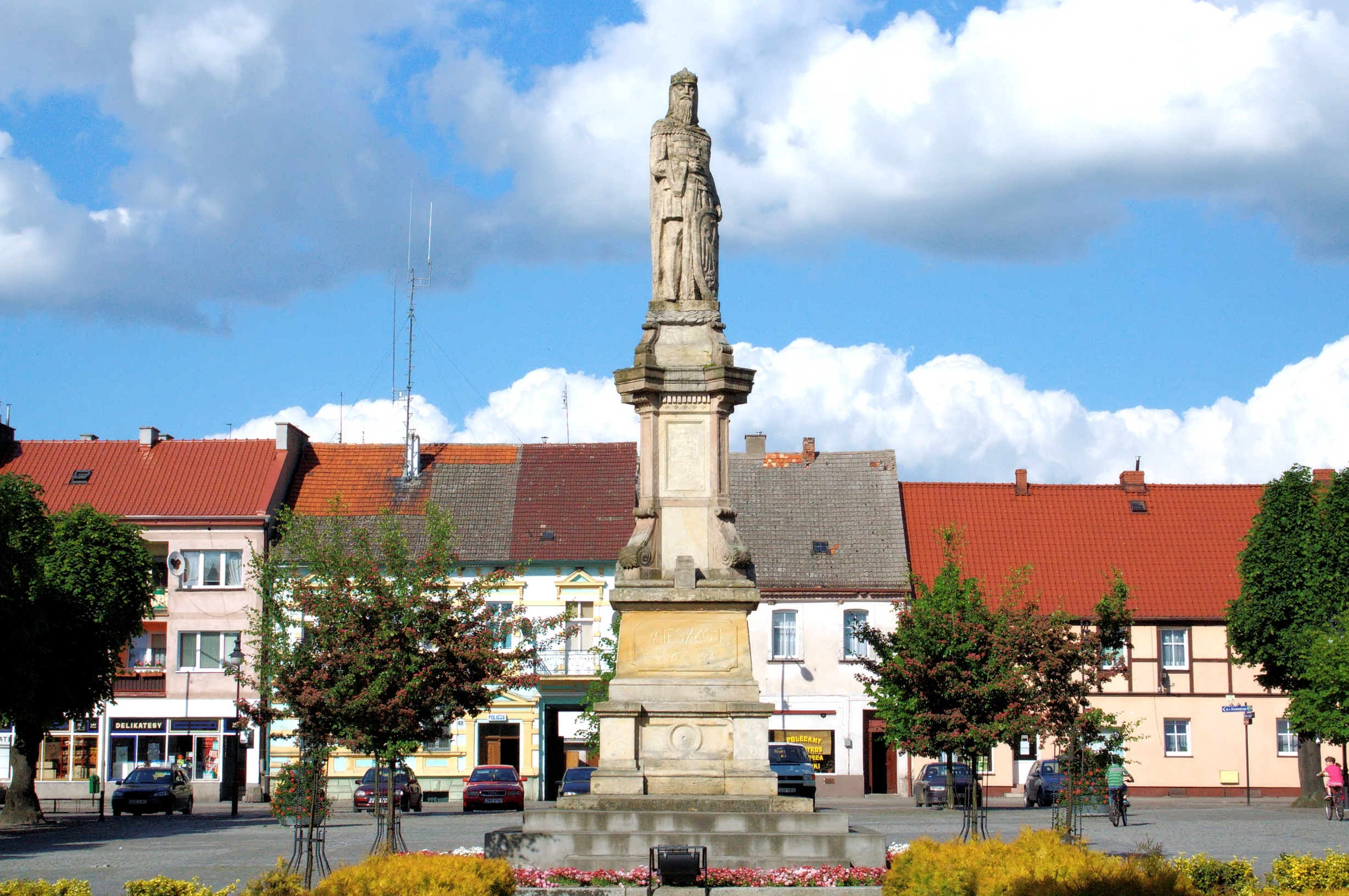 Mieszko I monument in Mieszkowice